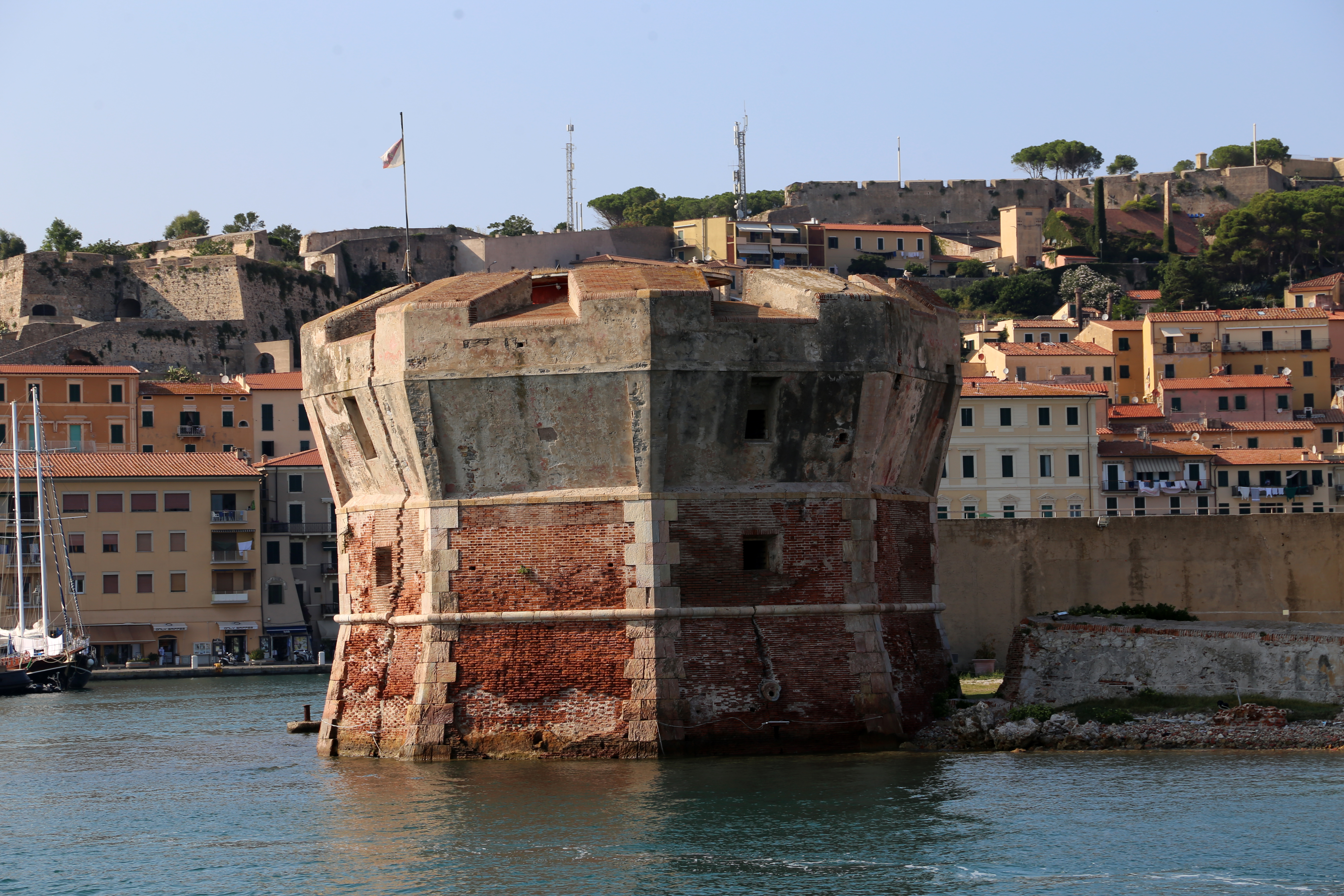 Portoferraio